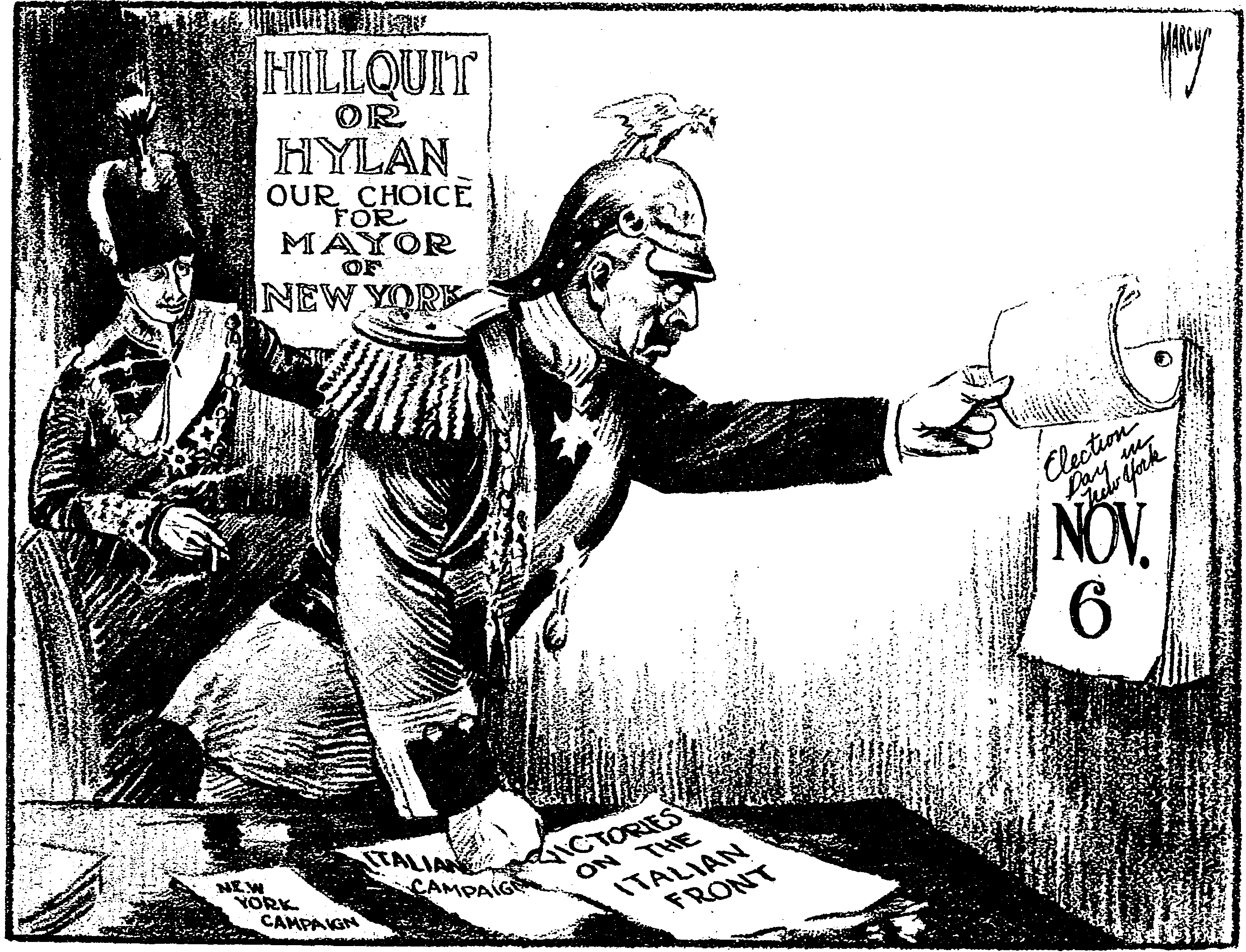 A Sunday New York Times wartime election cartoon implying that enemy rulers favor New York City mayoral candidates Morris Hillquit (Socialist) and John F. Hylan (Democratic) - the German Crown Prince asks his father, "Any more victories, Papa?" and Kaiser Wilhelm II answers, "I can't tell until Tuesday" (i.e. 6 November 1917)